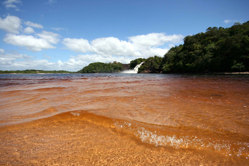 Canaima Lagoon, Venezuela.